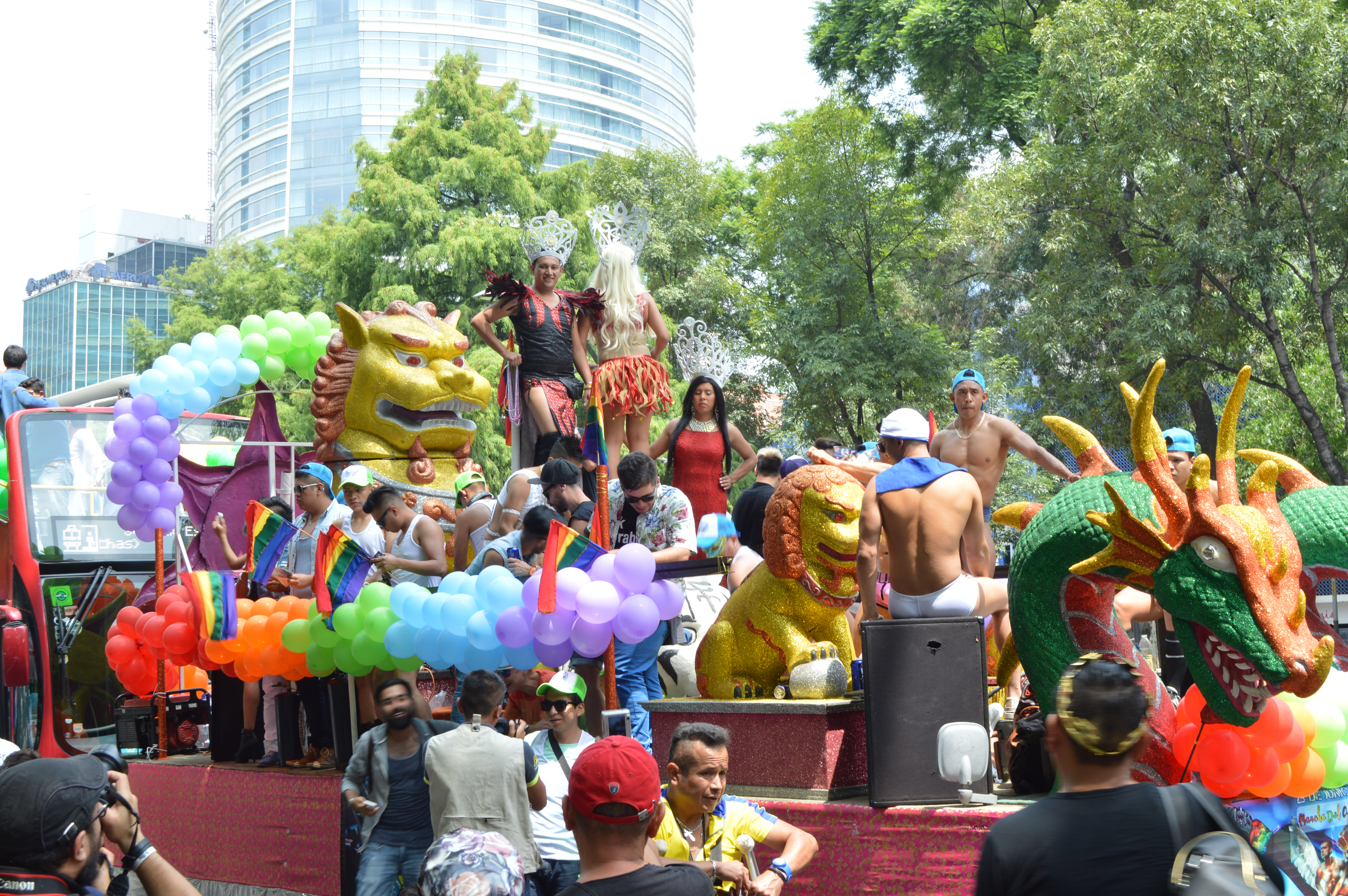 2016 Mexico city LGBT pride